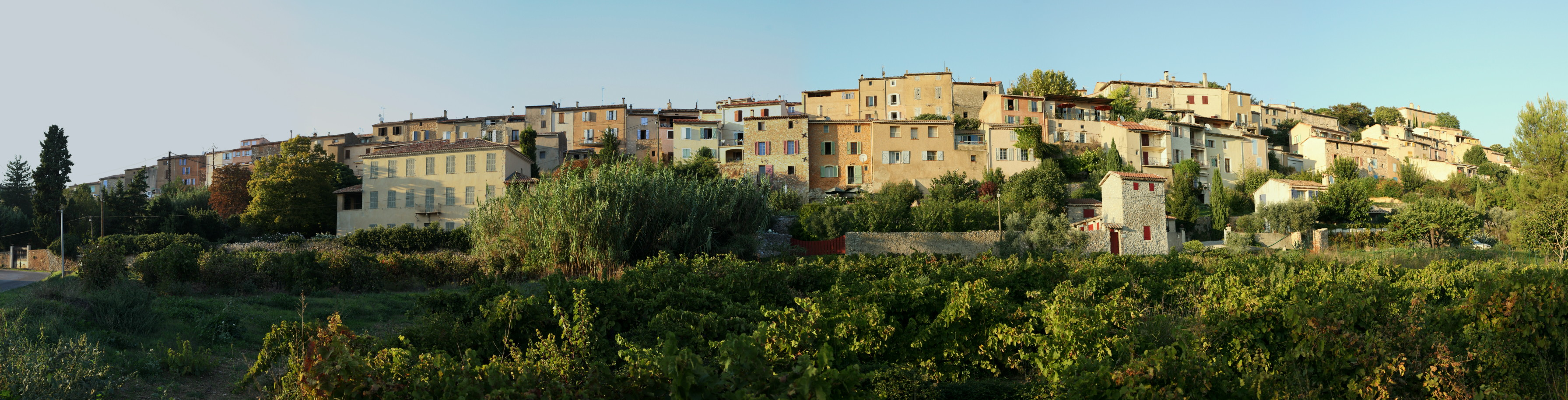 France - Var - Seillons Source d'Argens - Global view